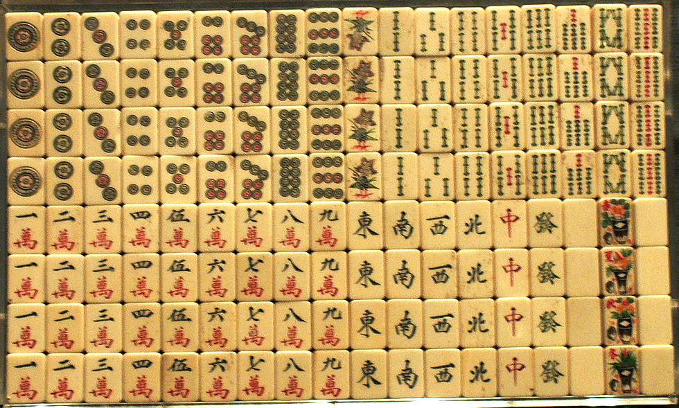 A pack of old mahjong tiles, displayed in the Tianyi Pavilion Museum.